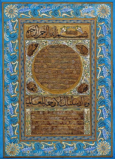 Hilye (Hilya) – Ottoman calligraphy panel; the text describes the physical appearance of the Islamic prophet Muhammad